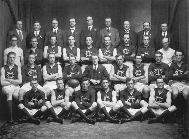 Carlton FC team, VFL Premiers